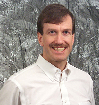 Photograph of Mike Muuss (1958-2000), Internet researcher and software author.